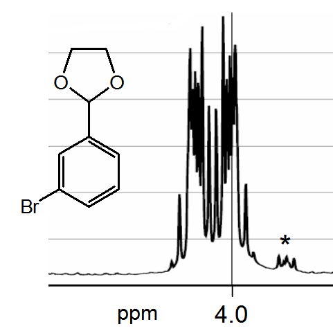 (300 MHz, CDCl3)